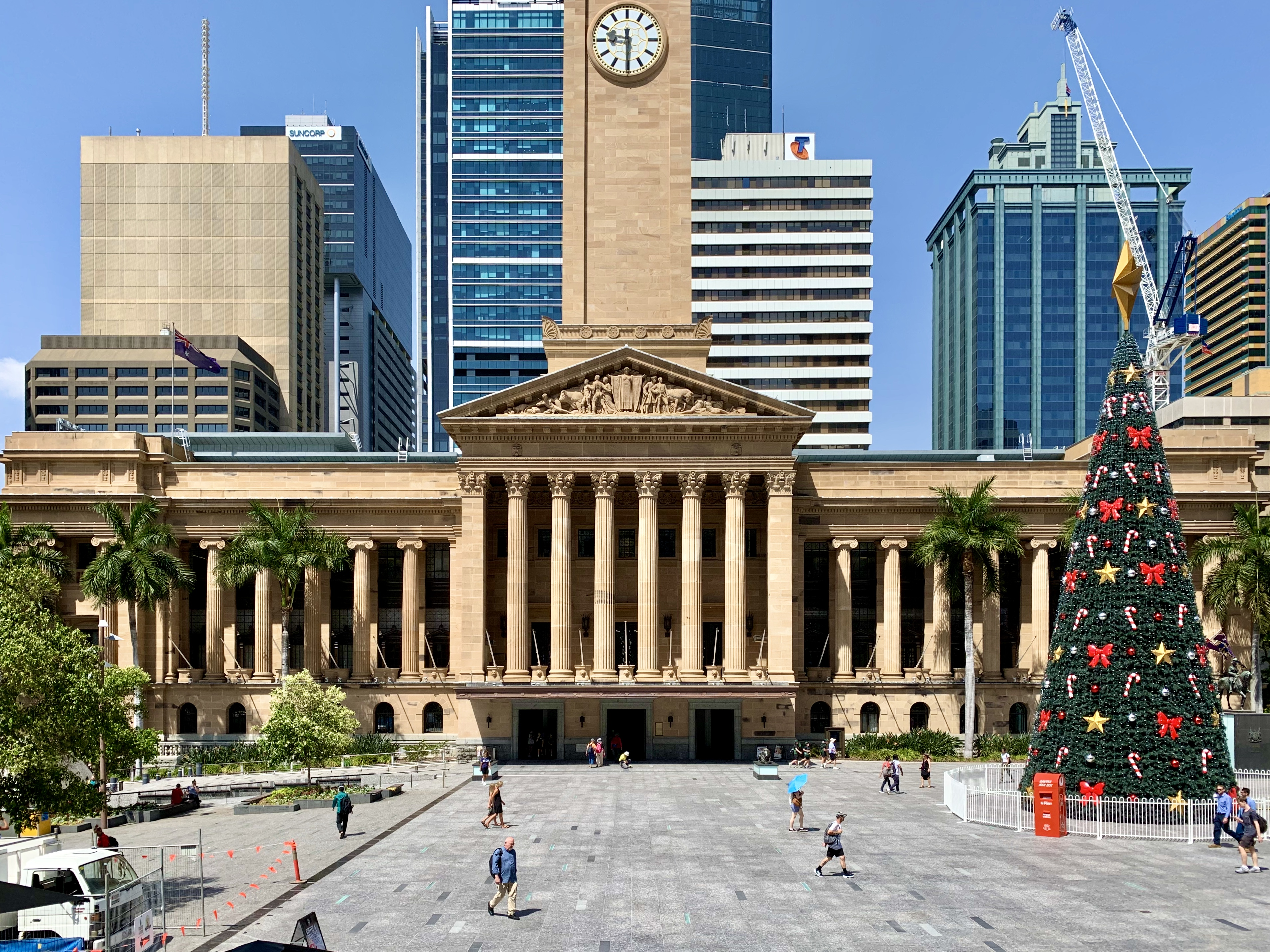 Christmas tree in King George Square, Brisbane in 2019